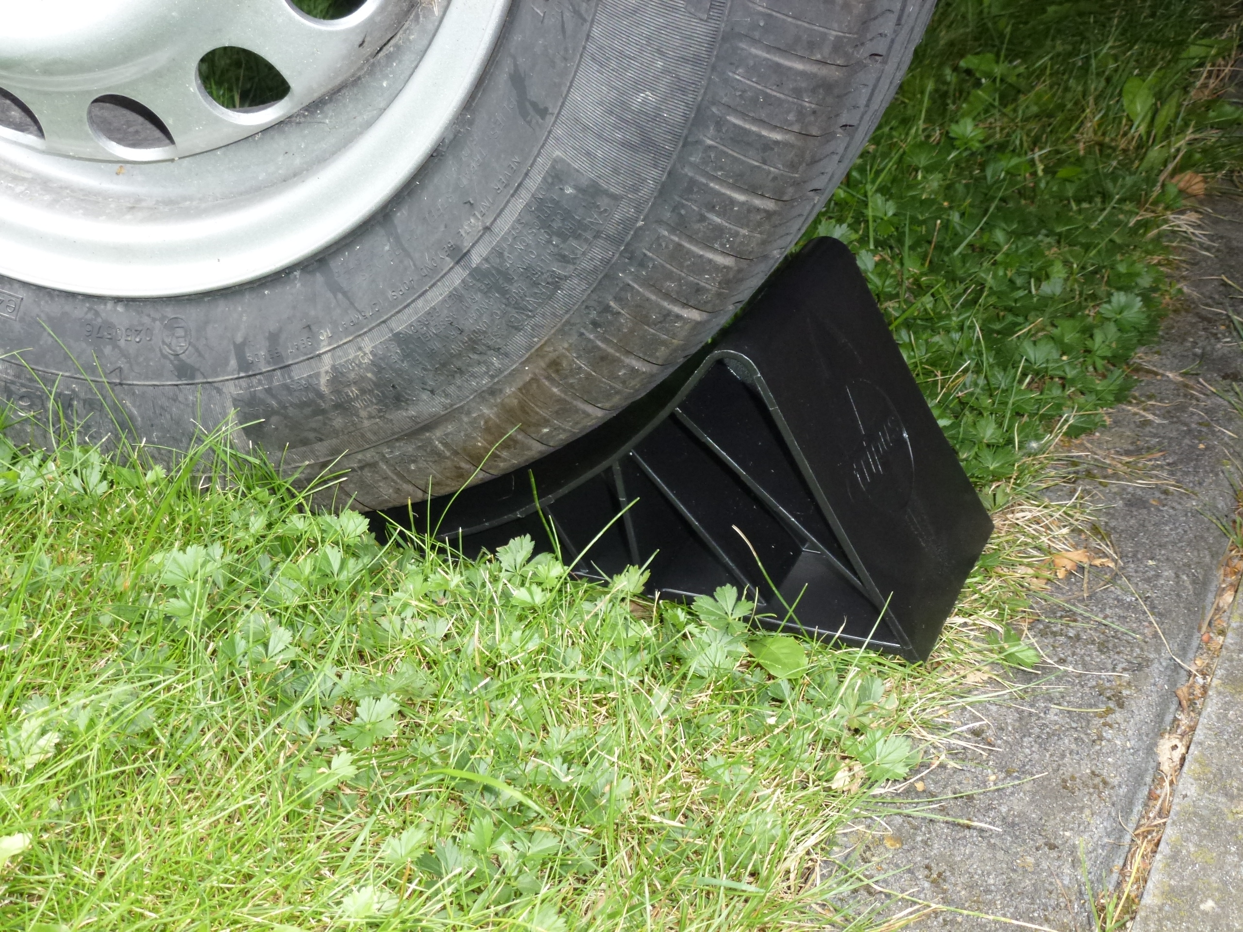 Wheel chock blocking a trailers wheel